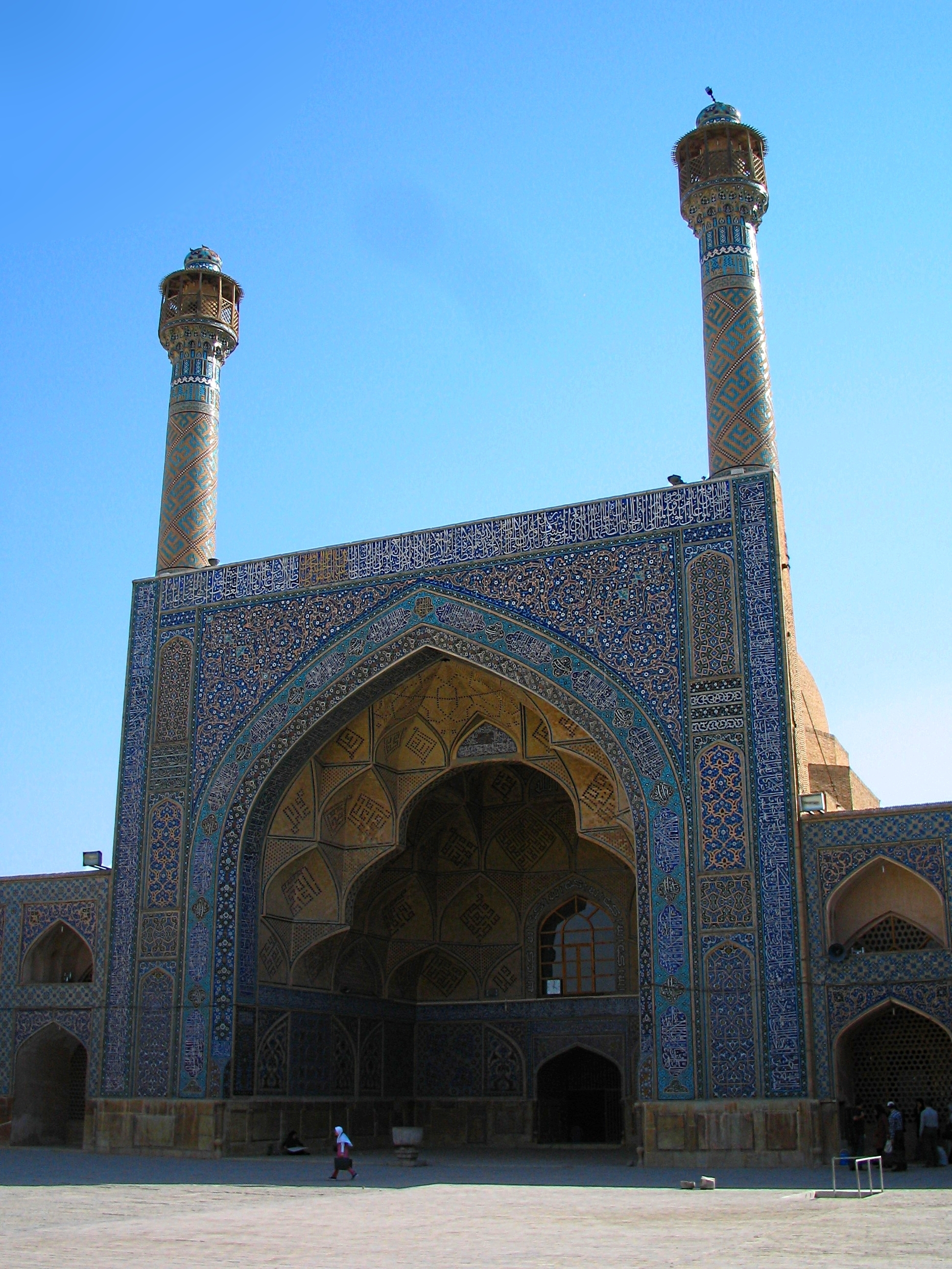 Jameh Mosque of Isfahan